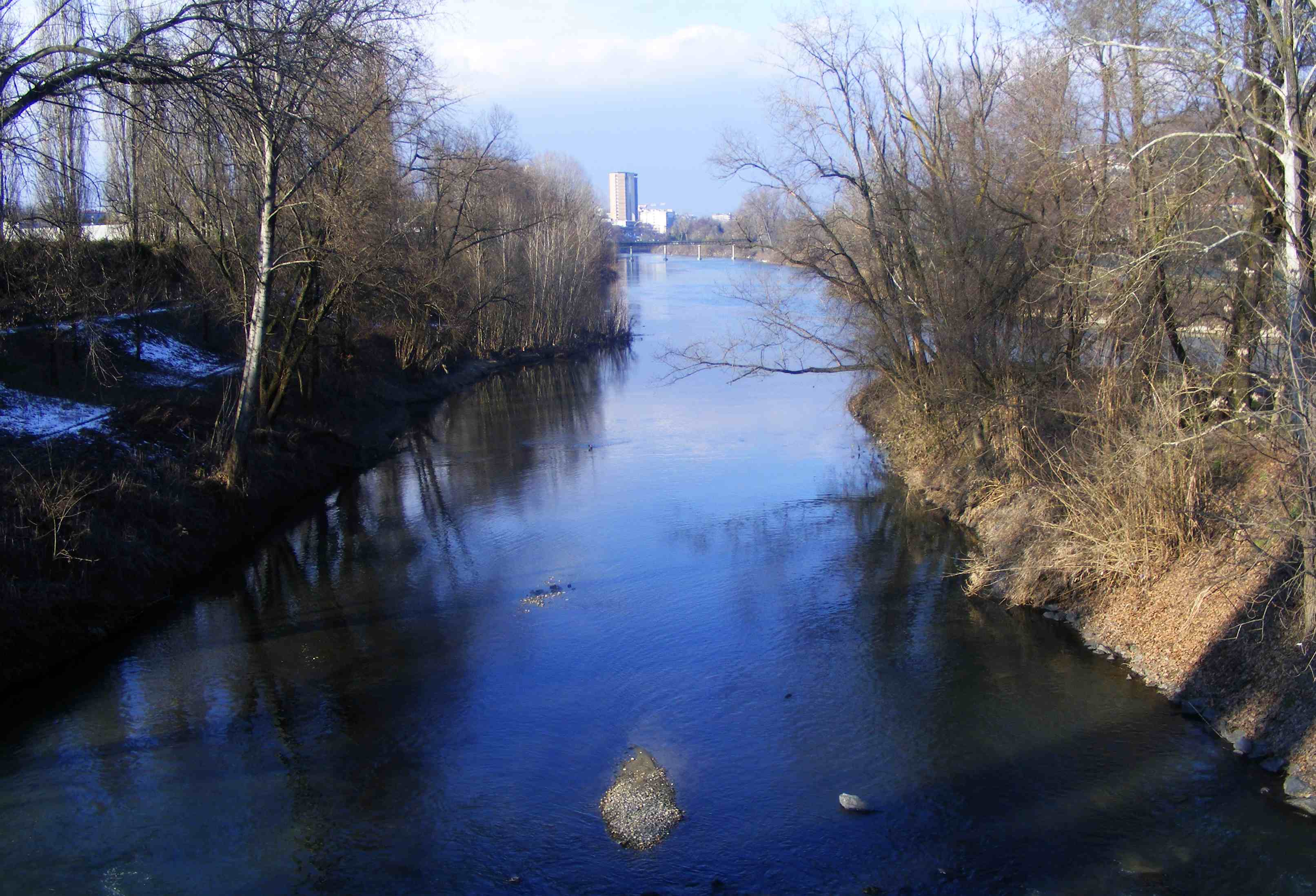 Sangone creek: confluence in the river Po (Turin, Italy); in the background CTO hospital